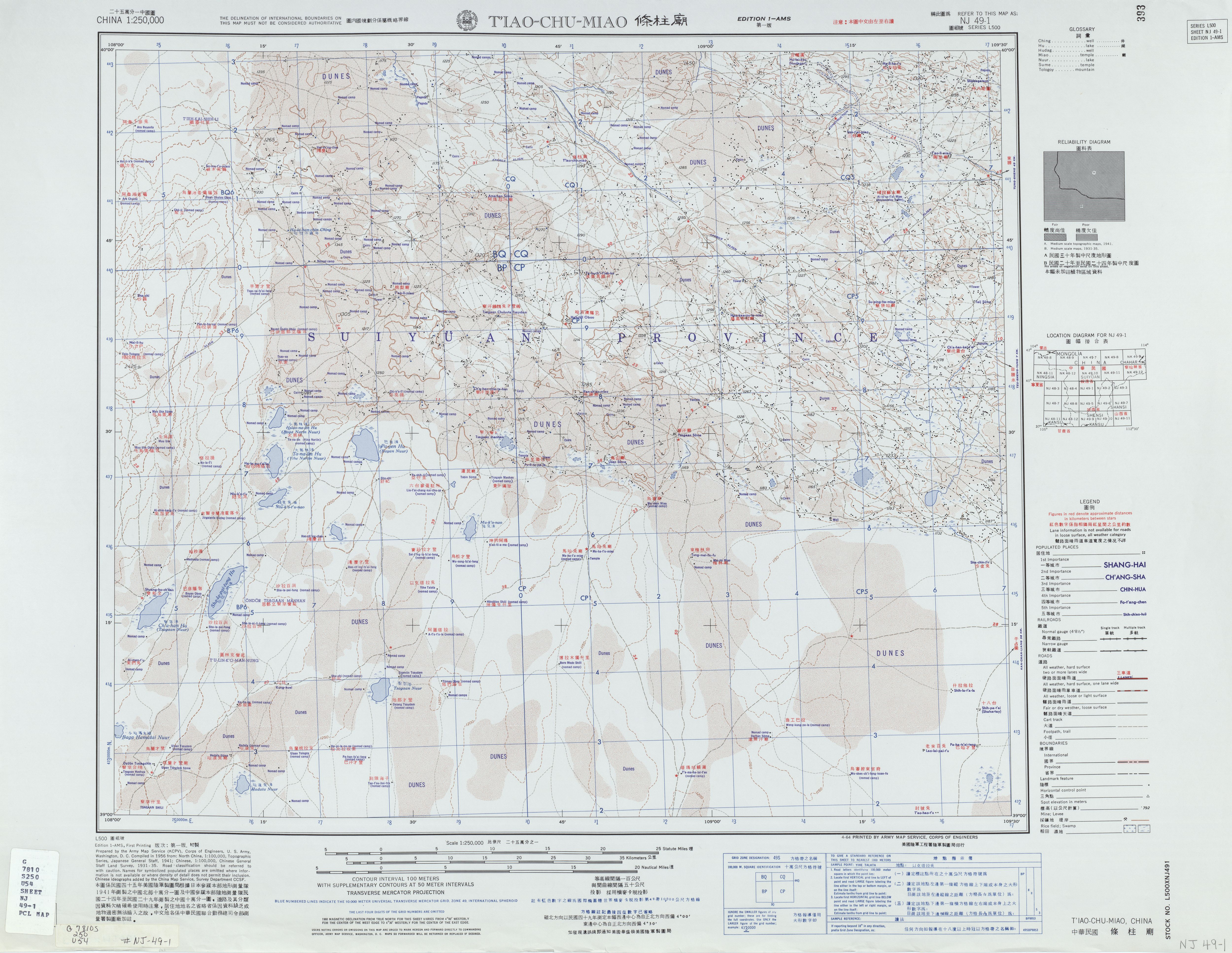 China AMS Topographic Maps